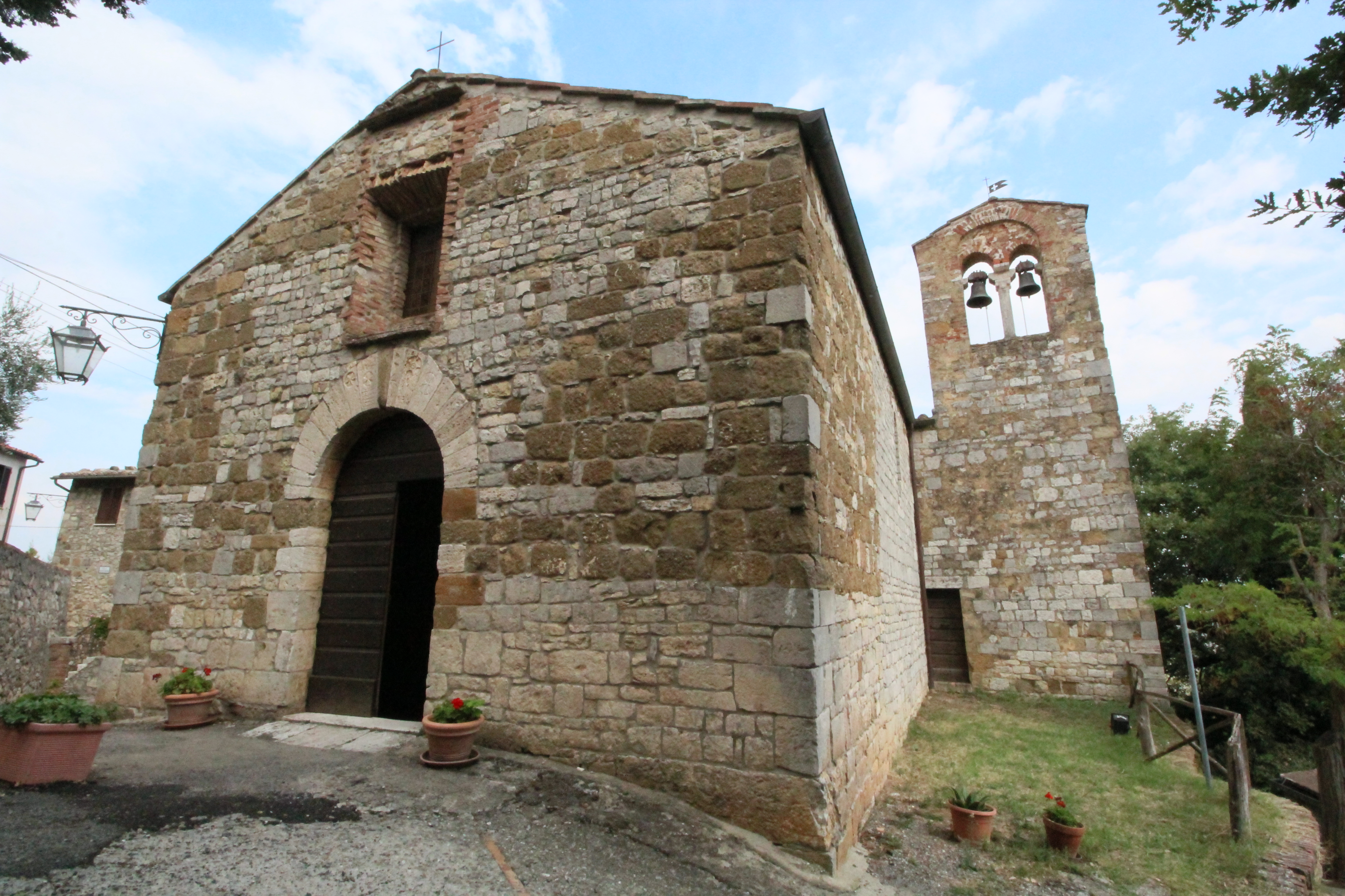 Church of Santa Maria Maddalena in Castiglione d’Orcia, Val d’Orcia, Province of Siena, Tuscany, Italy